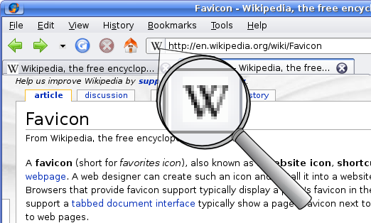 A screenshot of English Wikipedia in Firefox on KDE, showing the favicon next to the address bar.